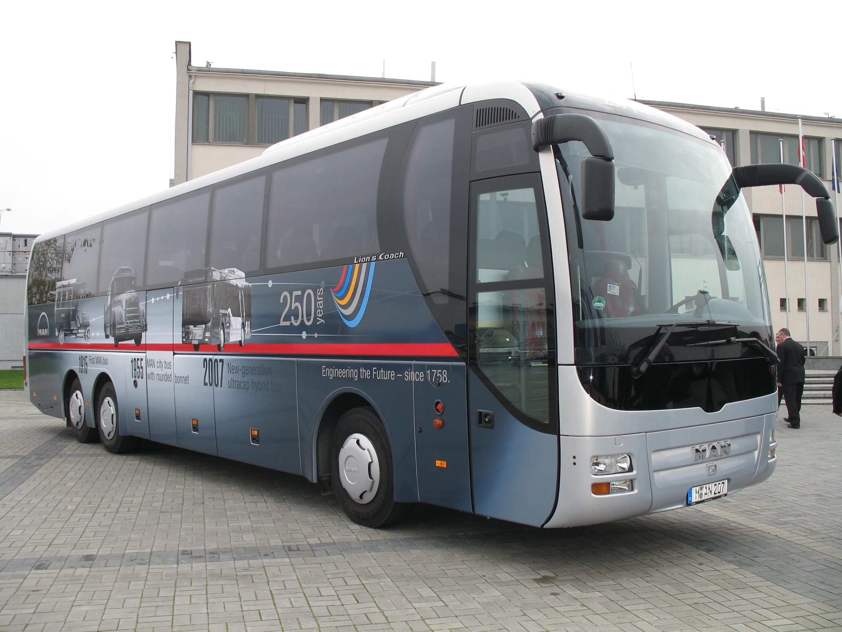 MAN Lion's Coach L coach in Kielce, Poland. Transexpo 2008. Maschinenfabrik Augsburg Nürnberg AG from München operator.